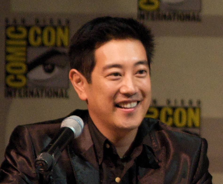 Mythbusters San Diego ComicCon 2009